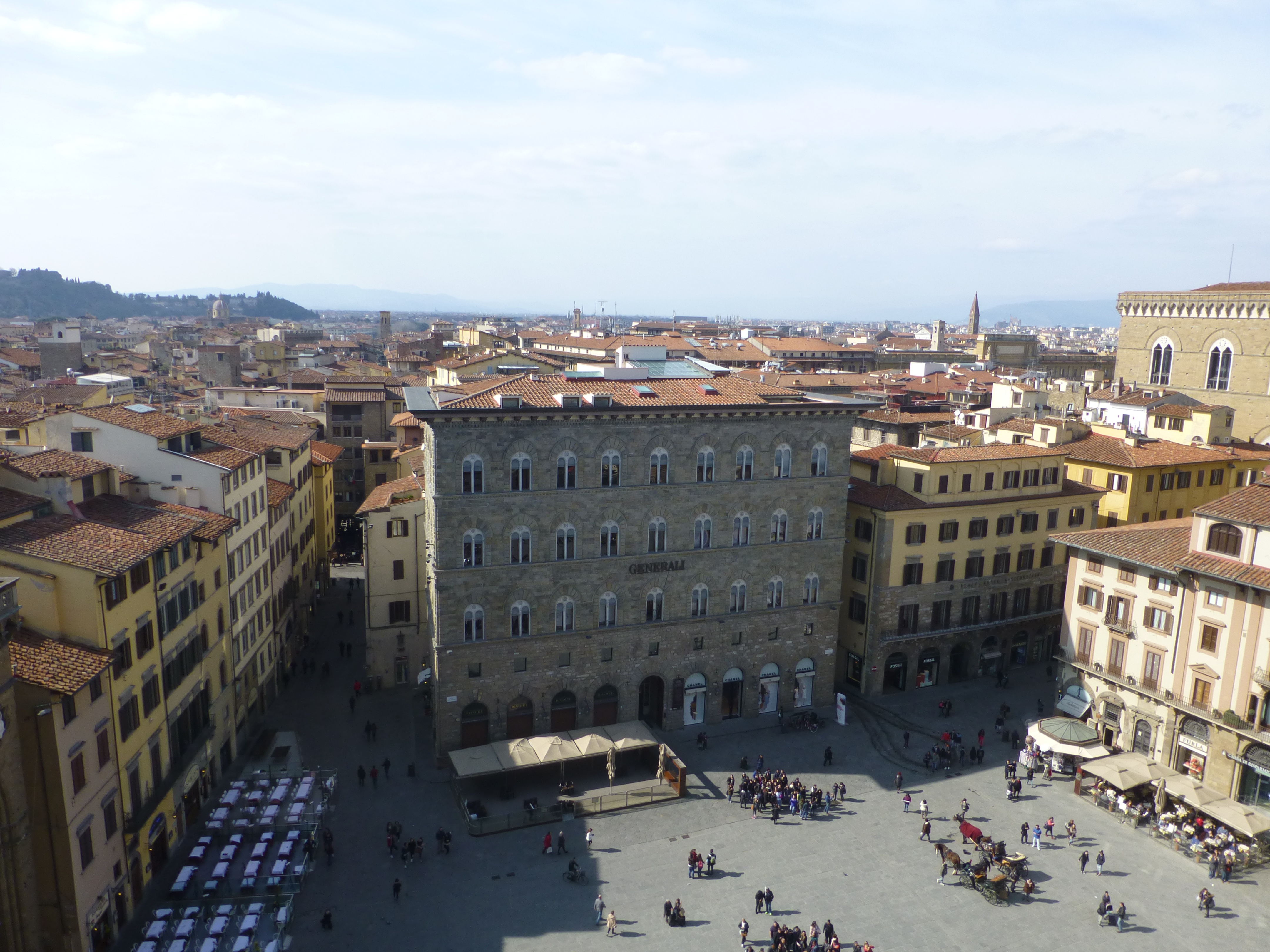 Piazza della Signoria, Firenze, Tuscany, Italy. Picture taken off Palazzo Vecchio.